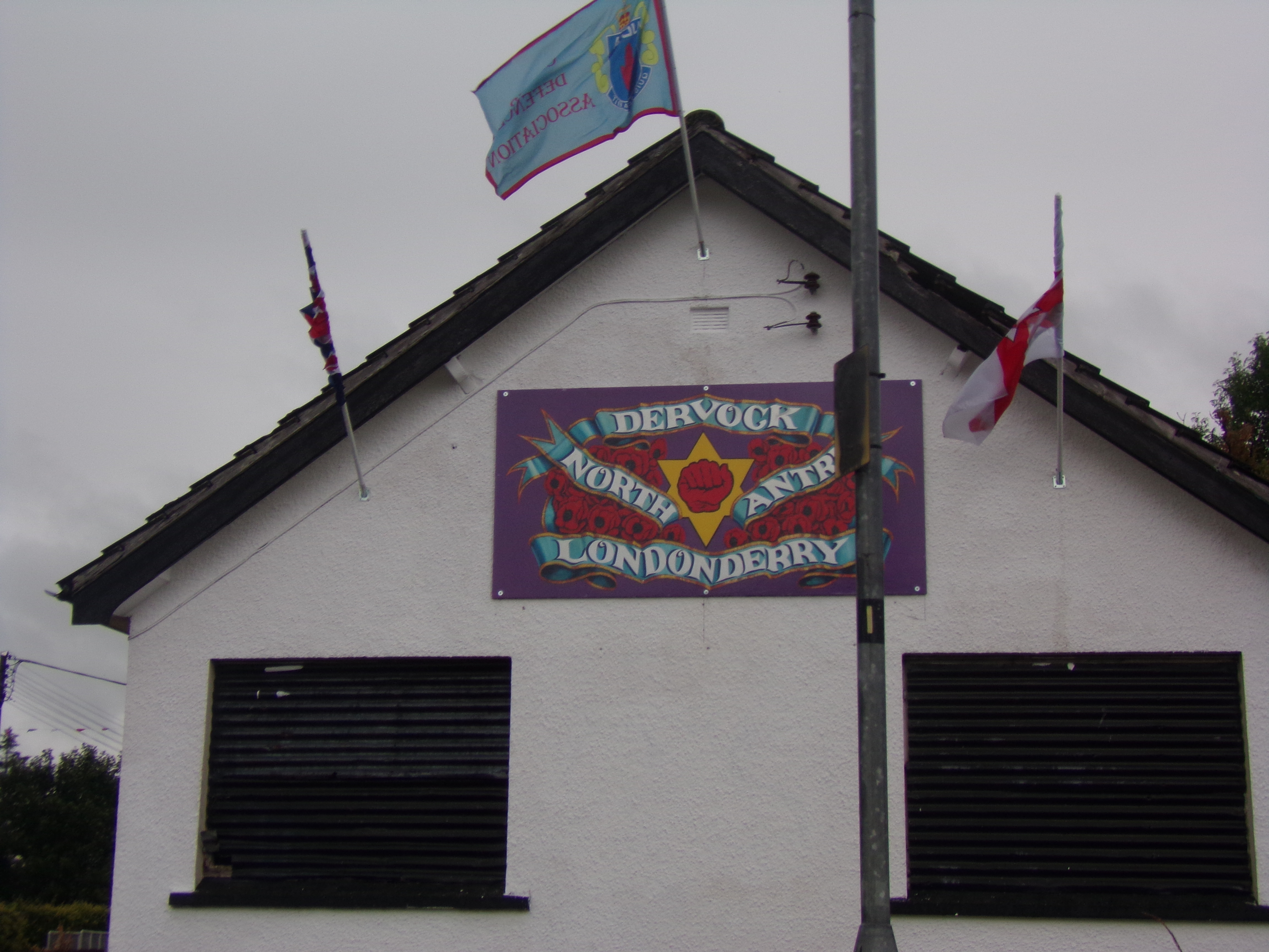 A wall sign in Dervock, County Antrim showing support for the loyalist paramilitary group the UDA.The North Antrim and Londonderry brigade of the UDA is listed on the sign.The flags flying above it are the UDA,Union and Ulster flags.